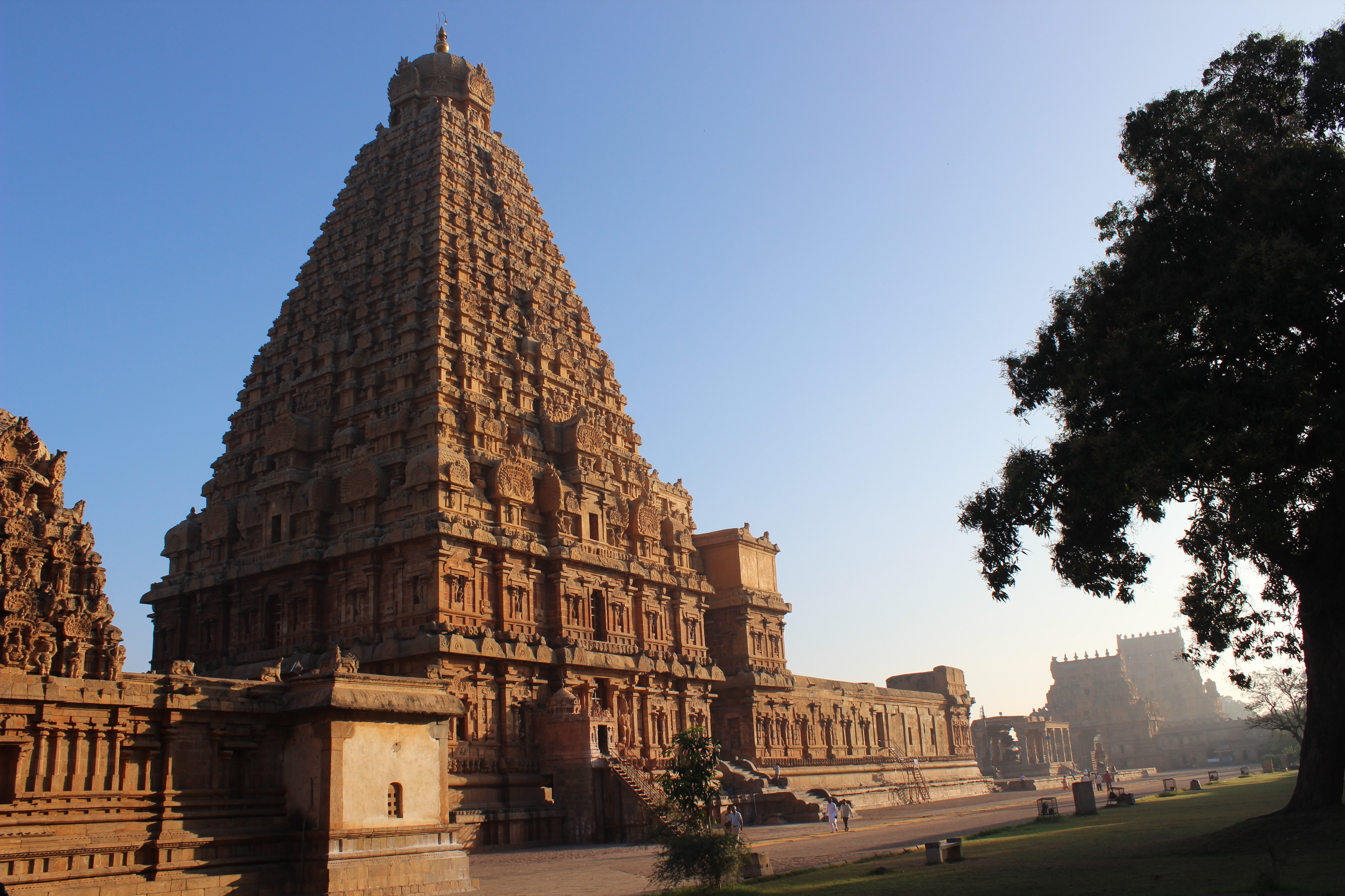 1000 years Old Thanjavur Brihadeeshwara Temple View at Sunrise.